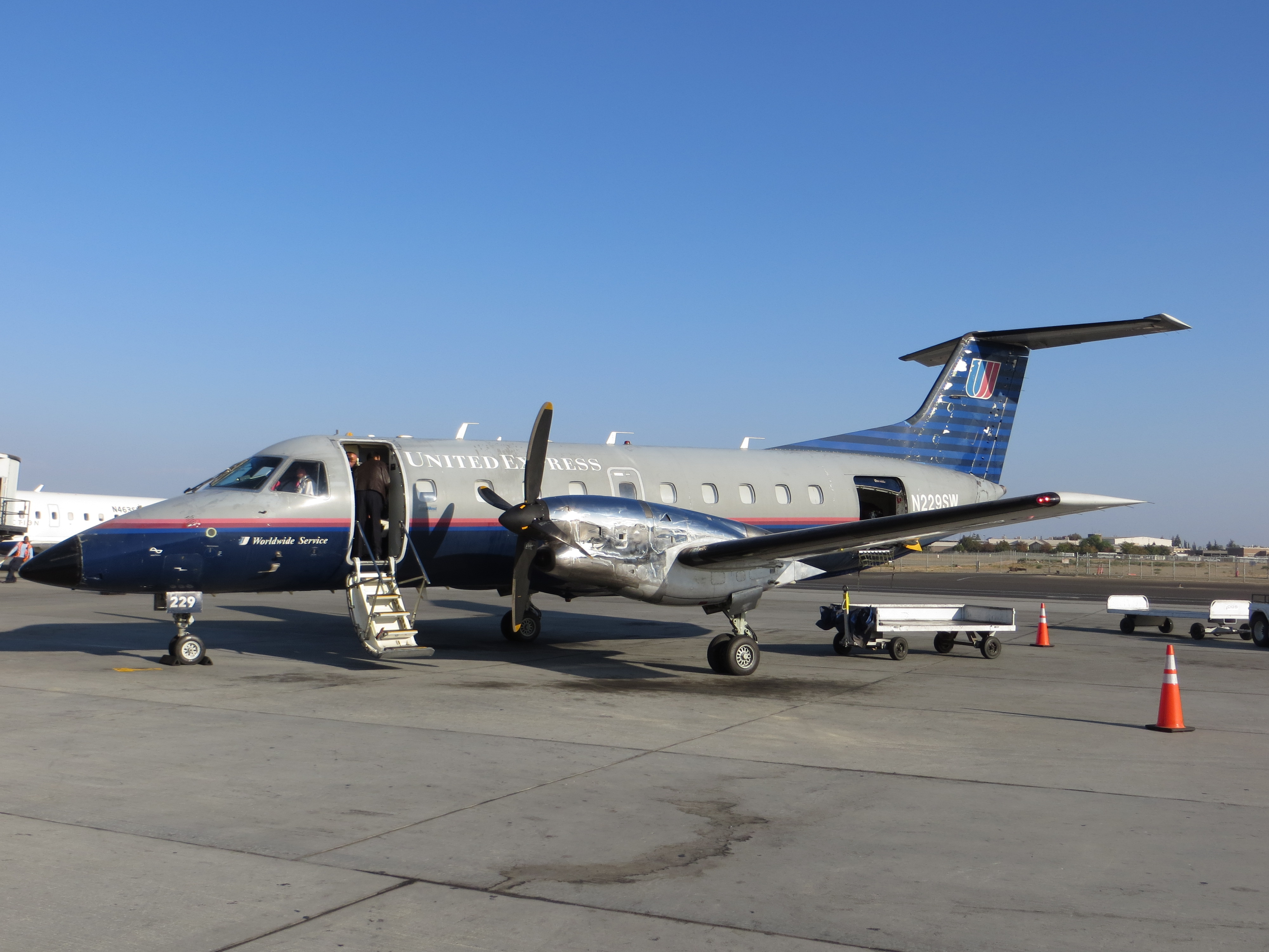 United Express Embraer 120 registered N229SW at Fresno Yosemite International Airport. Operated by SkyWest Airlines